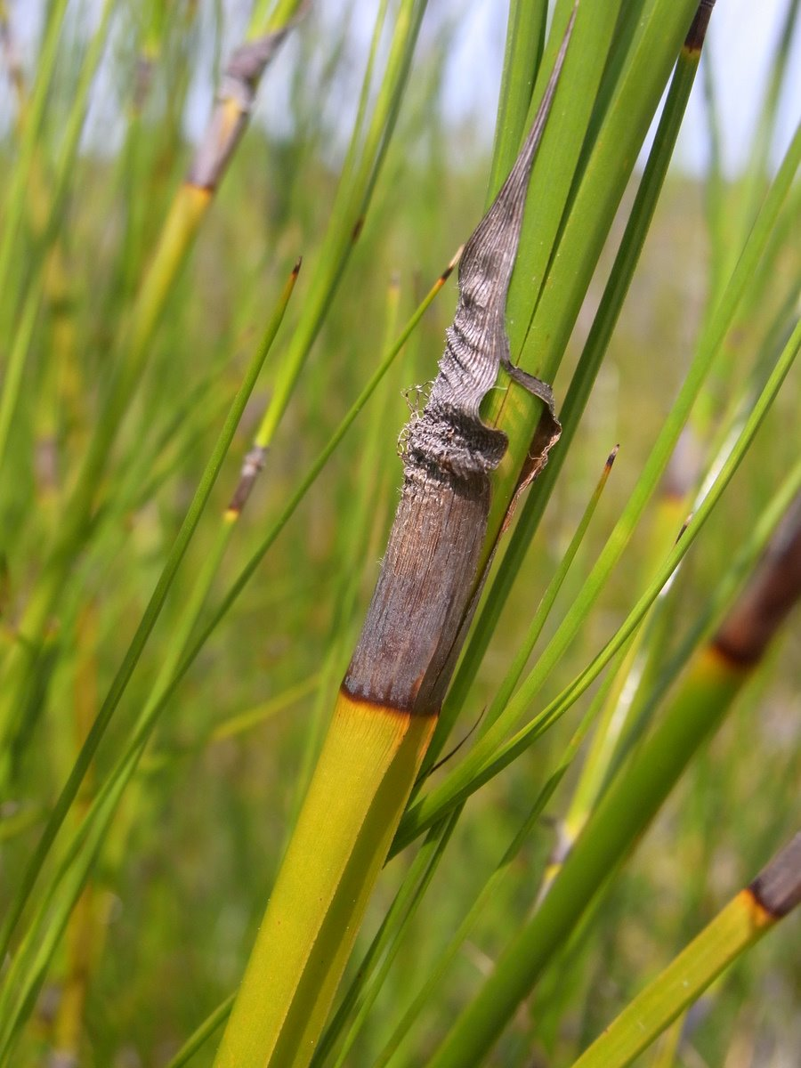 Rush; Basin Dam Track Ku-ring-gai Chase, NSW, Australia. Probably Caustis pentandra